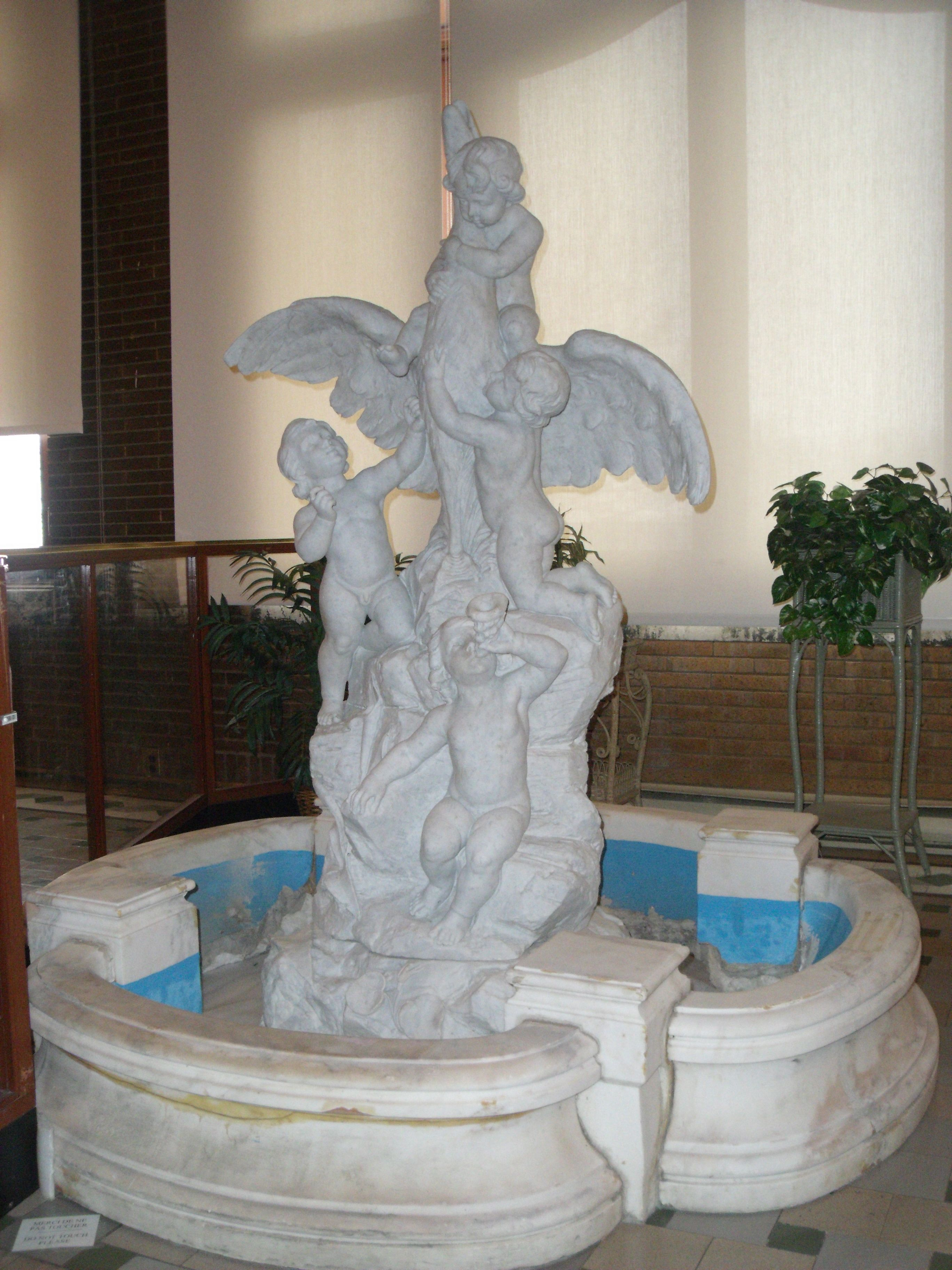 Château Dufresne, 4040 Sherbrooke Street East, Montreal, Quebec, Canada.